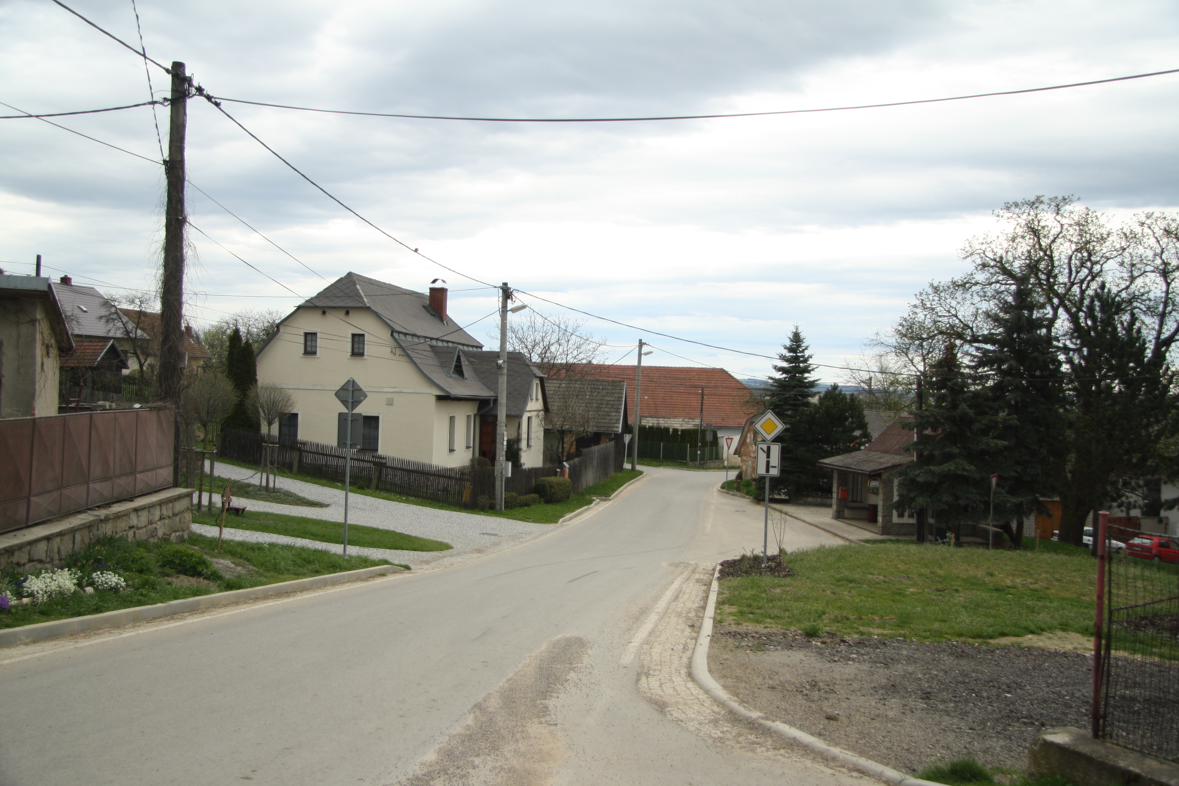 Center of Chlumek, Žďár nad Sázavou District.